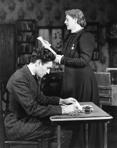 Promotional still for the original Broadway production of The Corn Is Green, starring Richard Waring and Ethel Barrymore